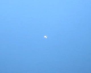 Alpha Centauri taken in daylight by holding a Canon Powershot S100 behind the eyepiece of a 110mm refractor. The photo is one of the best frames of a video. The double star is clearly visible.